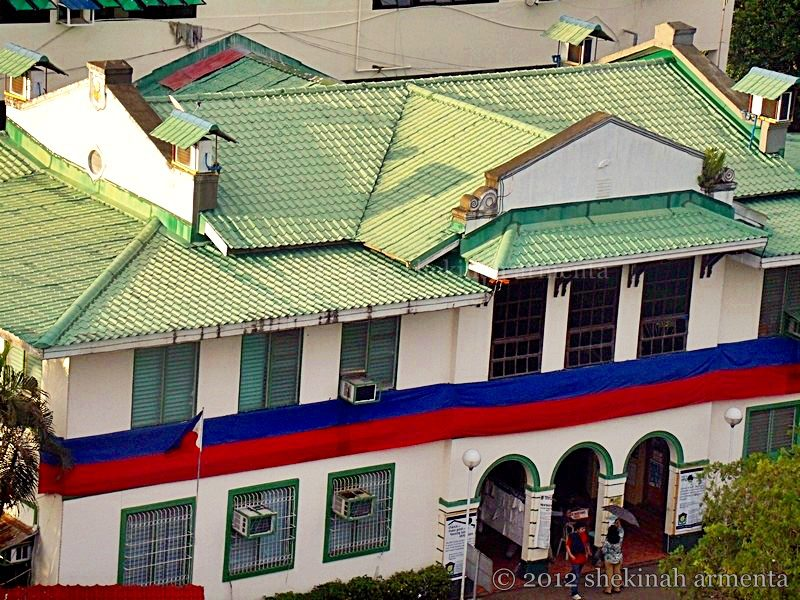 Location: Dipolog City Category: Building Type: Government Center